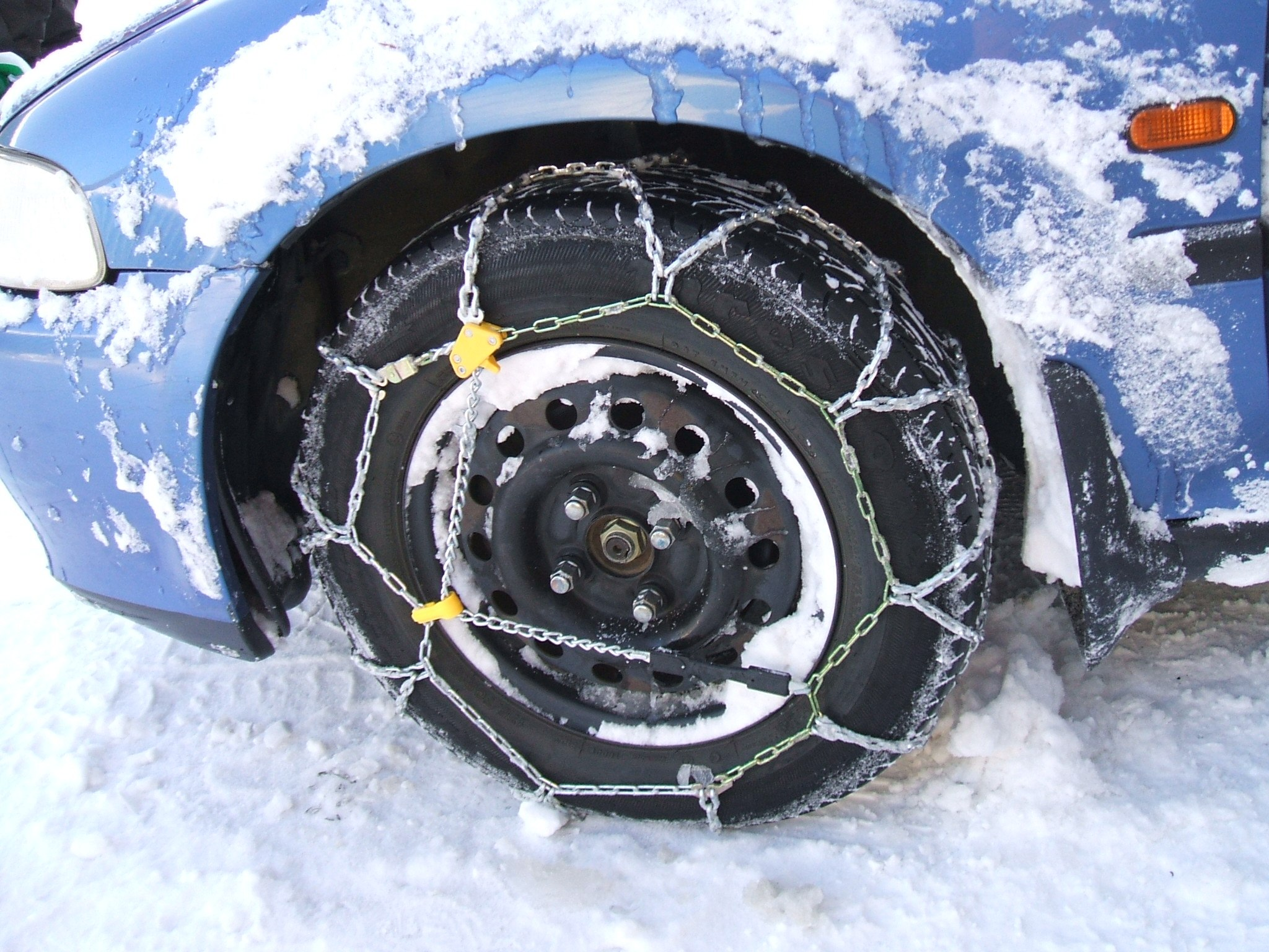 Snow chain at the front wheel. Photographer: Devchonka.